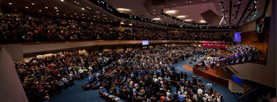 Worship service inside the main auditorium at First Baptist Church Jacksonville, FL, USA.